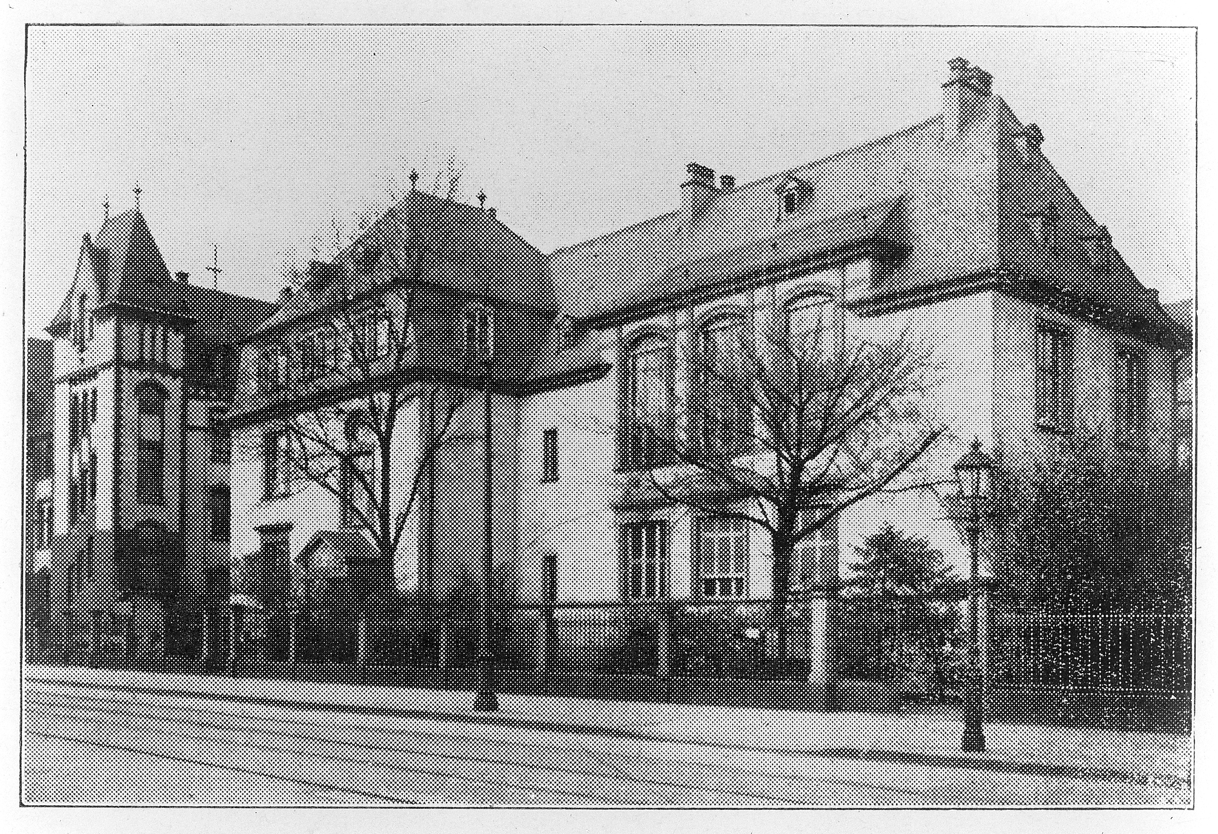 The Georg Speyer-Haus for Chemiotherapy was built for Ehrlich by Frau Franziska Speyer in memory of her husband. It was close to the Frankfurt Hospital and was opened and dedicated in 1906. It was in this Institute that most of Ehrlich's work on Chemiotherapy was carried out. Wellcome Images Keywords: frankfurt-am-main; Germany; Institutions